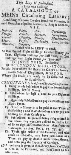 Newspaper item about John Mein's circulating library, King Street, Boston